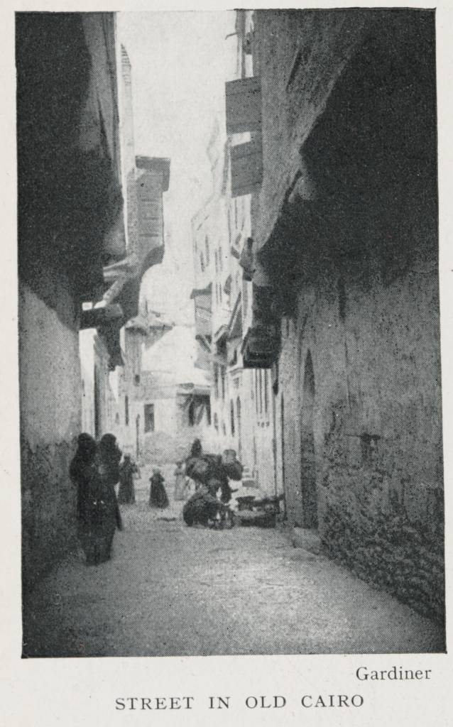 A narrow alley in Old Cairo.